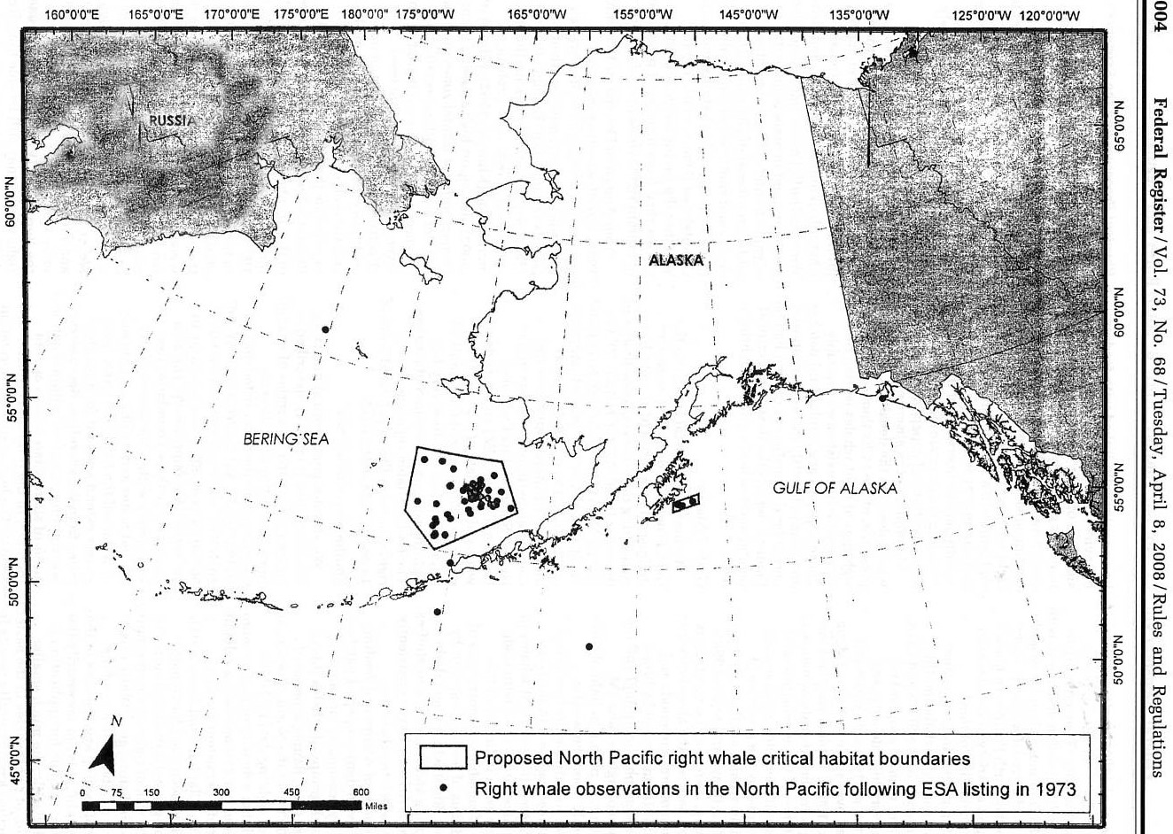 Map of sightings of North Pacific right whales in the Bering Sea and Gulf of Alaska between 1973-2008 and Critical Habitat designation for this species.